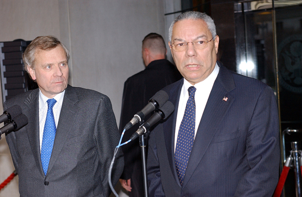 Secretary Powell and NATO Secretary General Jaap de Hoop Scheffer spoke with the press after their meeting.